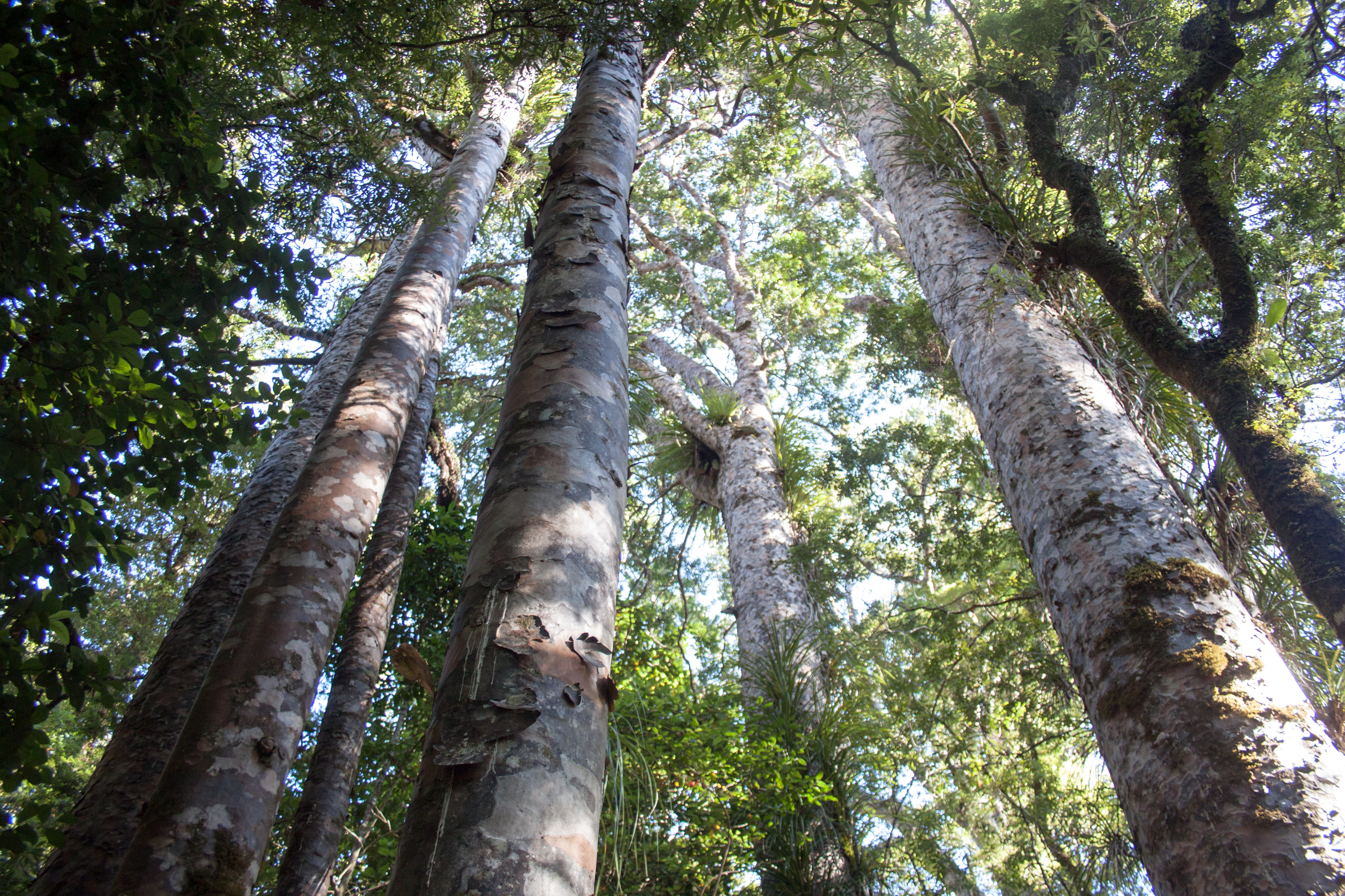 Waipoua Forest, group of kauri trees